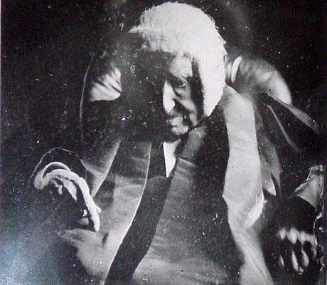 The Revd. Dr. Martin Routh (1755-1854), President of Magdalen College, Oxford (1791-1854). Anonymous daguerreotype.